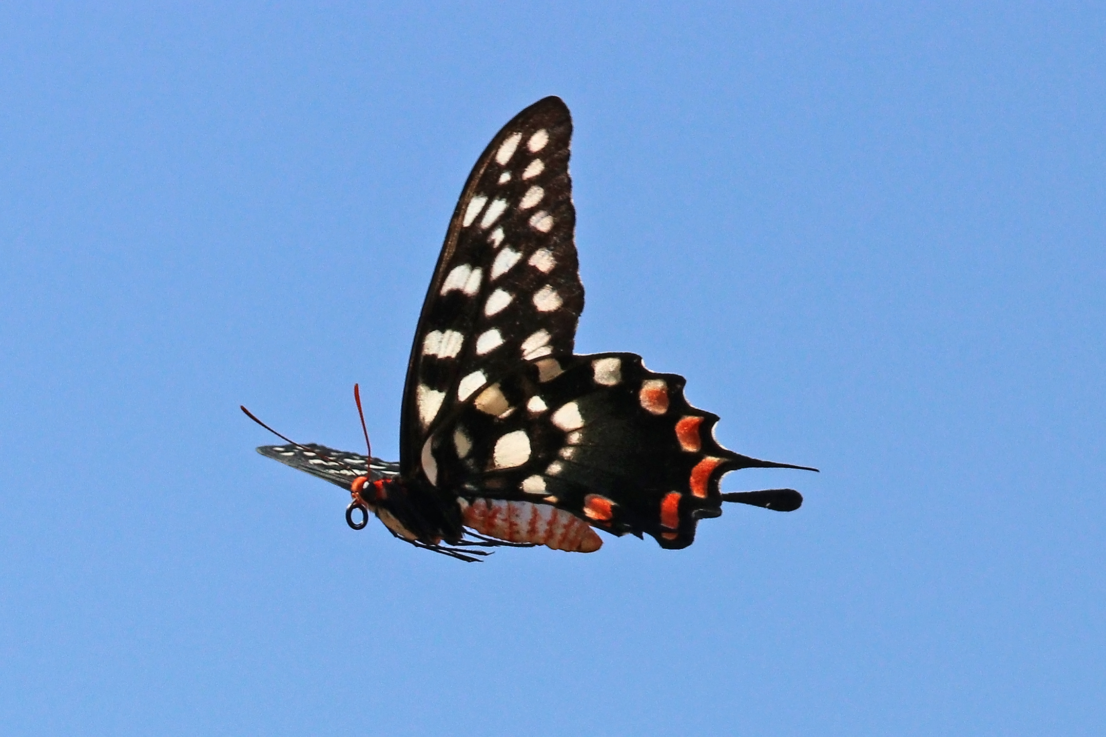 Madagascar giant swallowtail (Pharmacophagus antenor) in flight, Belalanda, Near Toliara, Madagascar